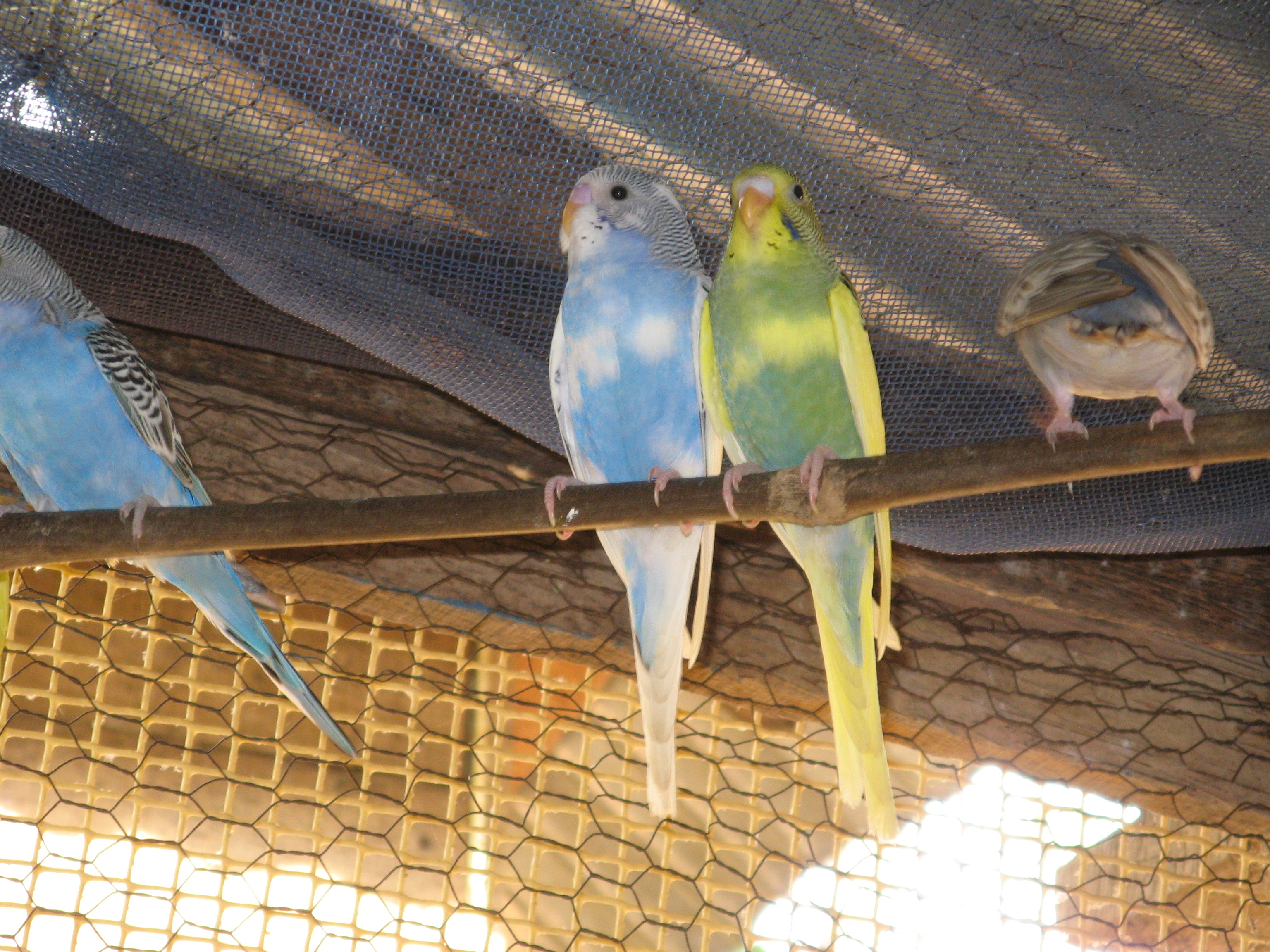 Budgerigars in a aviary.